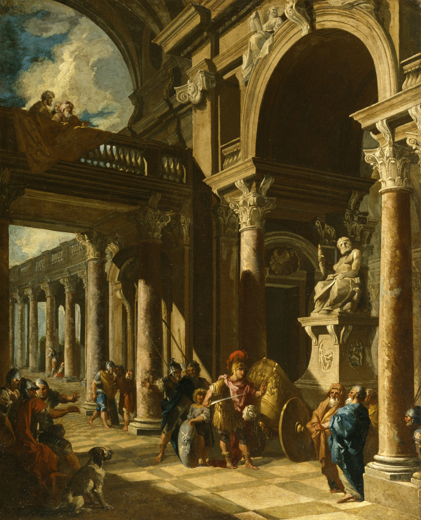 In this companion to "Alexander the Great at the Tomb of Achilles" (Walters 37.510), the Macedonian ruler and general has entered the town of Gordium (in present-day Turkey) in 344 BC. In that city was the chariot of Gordius, the father of the legendary King Midas. The yoke of the wagon was fastened by a complicated knot. It had been prophesied that the one who could loose the knot would become the ruler of Asia. Instead of trying to untie the impossibly difficult knot, Alexander just cut through it with his sword. He went on to conquer Asian kingdoms as far east as Afghanistan. To suggest Asia Minor and the ancient past, Panini introduced a bystander wearing a turban and placed the scene in front of an altar dedicated to Zeus, ruler of the Greek gods, enthroned with his thunderbolt.